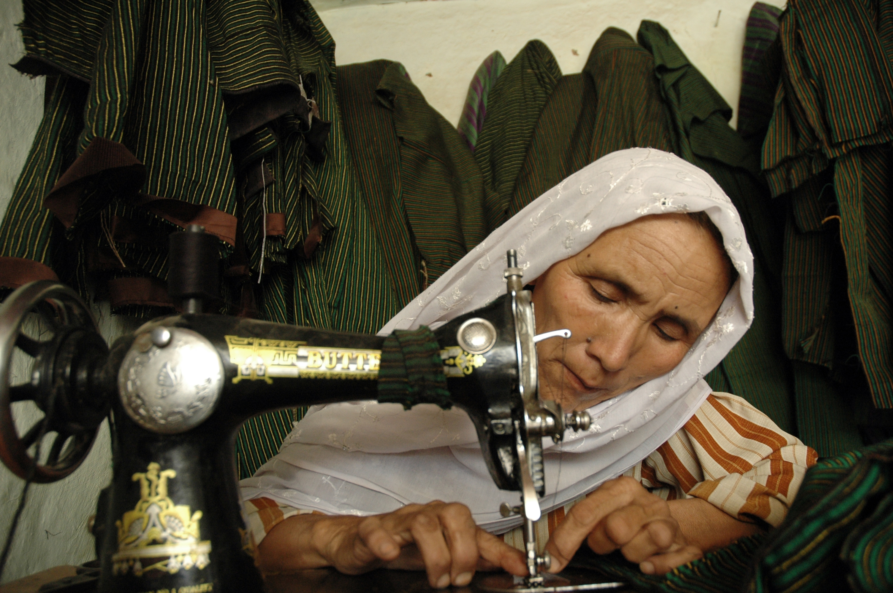 An Afghan woman can earn and income using a sewing machine purchased with one of the 1.4 million microfinance loans that have been provided through the AusAID-funded Microfinance Investment Support Facility for Afghanistan. 2008. Photo: Imal Hashemi, Afghanistan Reconstruction Trust Fund